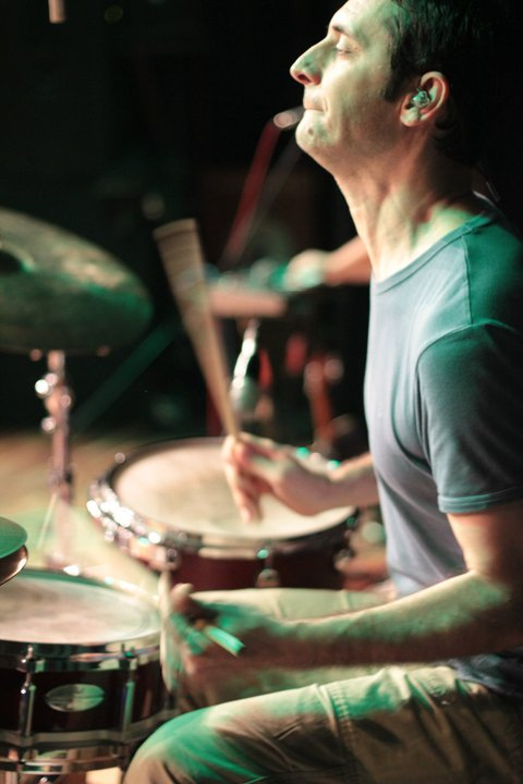 Cem Davul